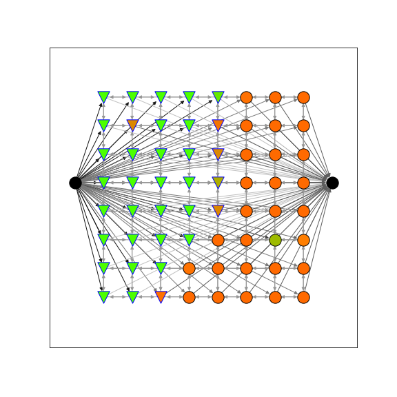 Result on the network for image segmentation